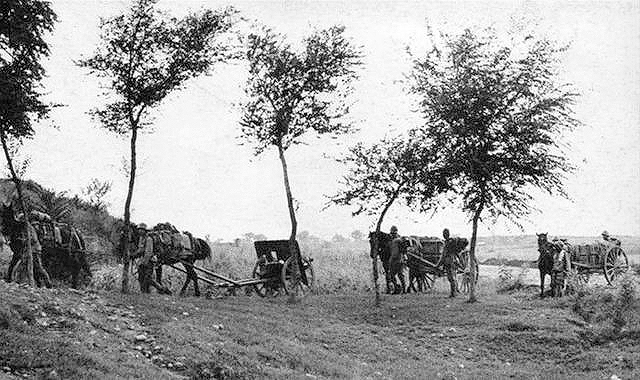 A Type 41 75-mm Mountain Gun of the Imperial Japanese Army, drawn by mules. Mid 1930